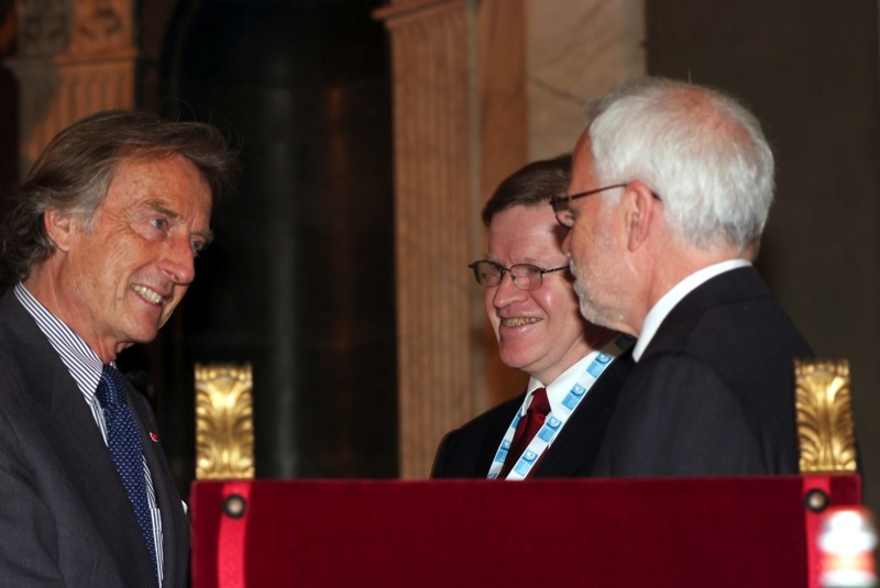 The State of the Union 2012 - 9 May